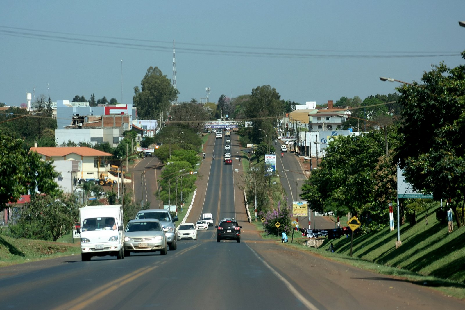 Route 6 passing through Santa Rita city.